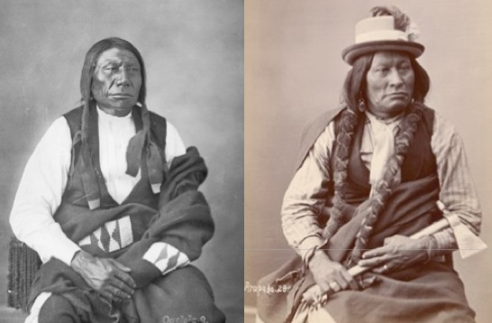 Chief Blue Horse and Chief Big Mouth, twins b. 1822. This photo is a composite of photos of Chief Blue Horse, 1872, and his twin Brother, Chief Big Mouth, b.1822